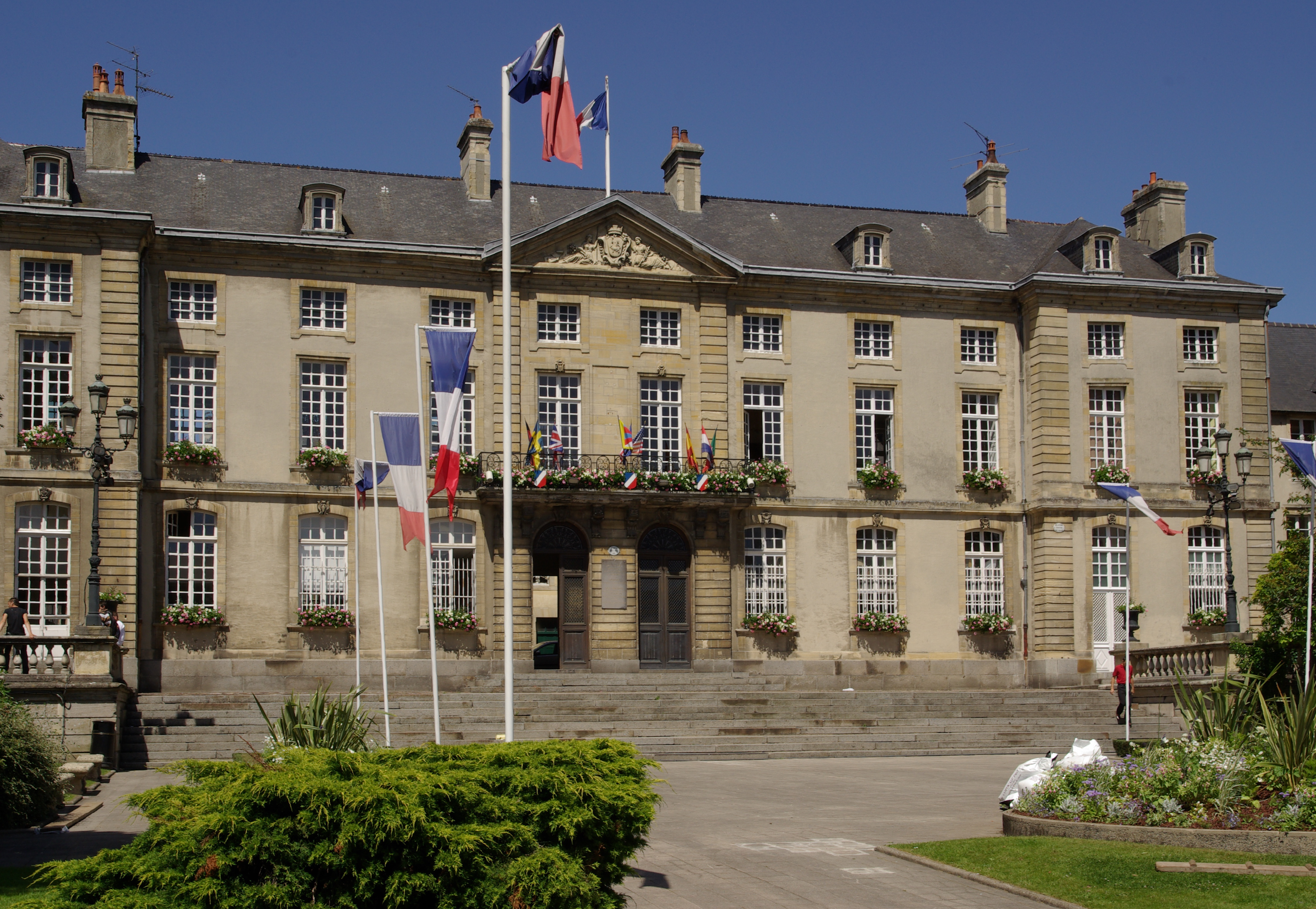 Town hall of Bayeux in Calvados (14)